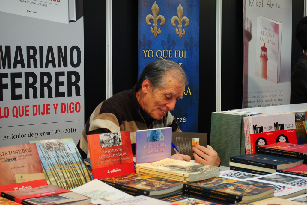 Mariano Ferre in his book's presentation at Durango Azoka